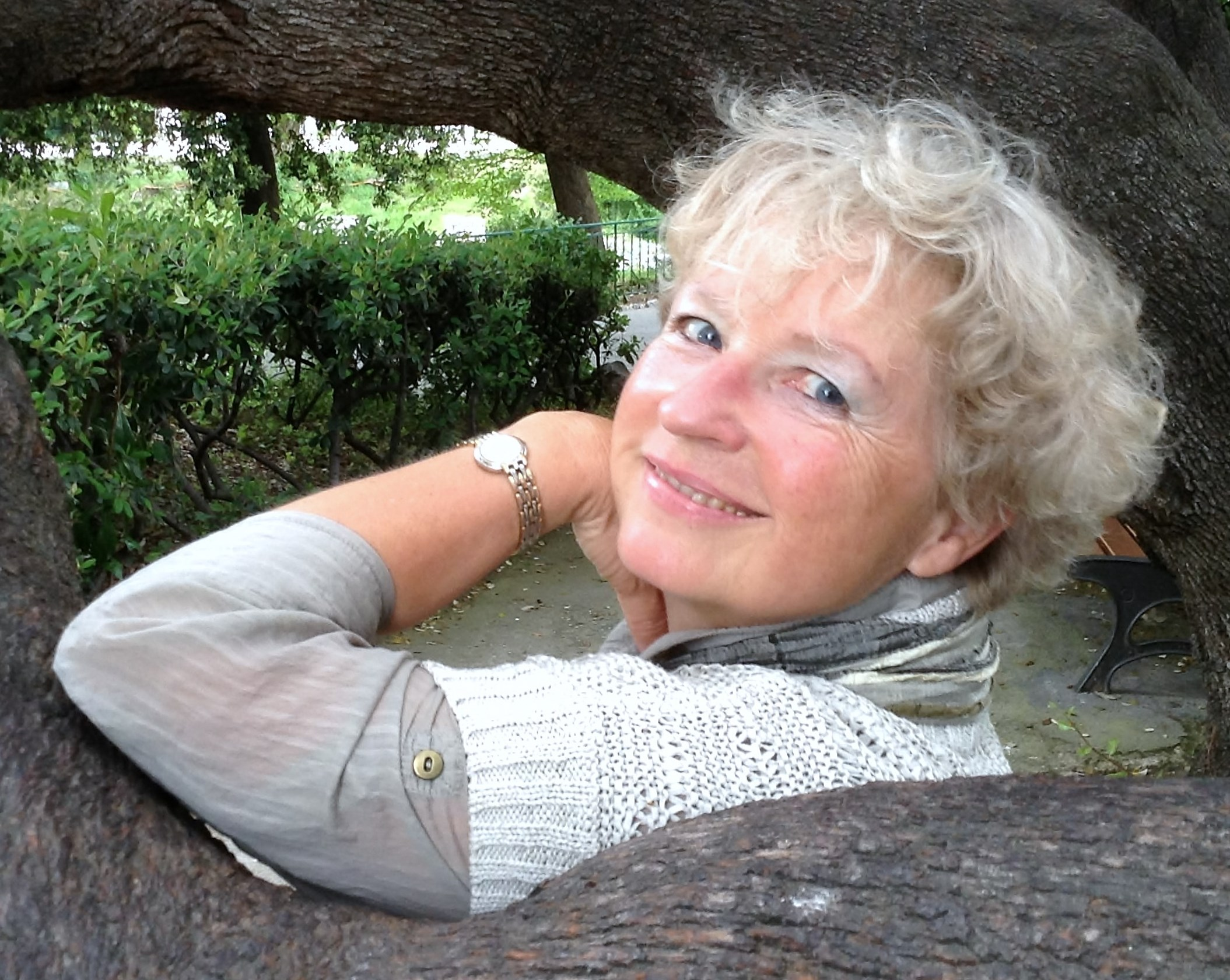 Ursel Bühring (2013)